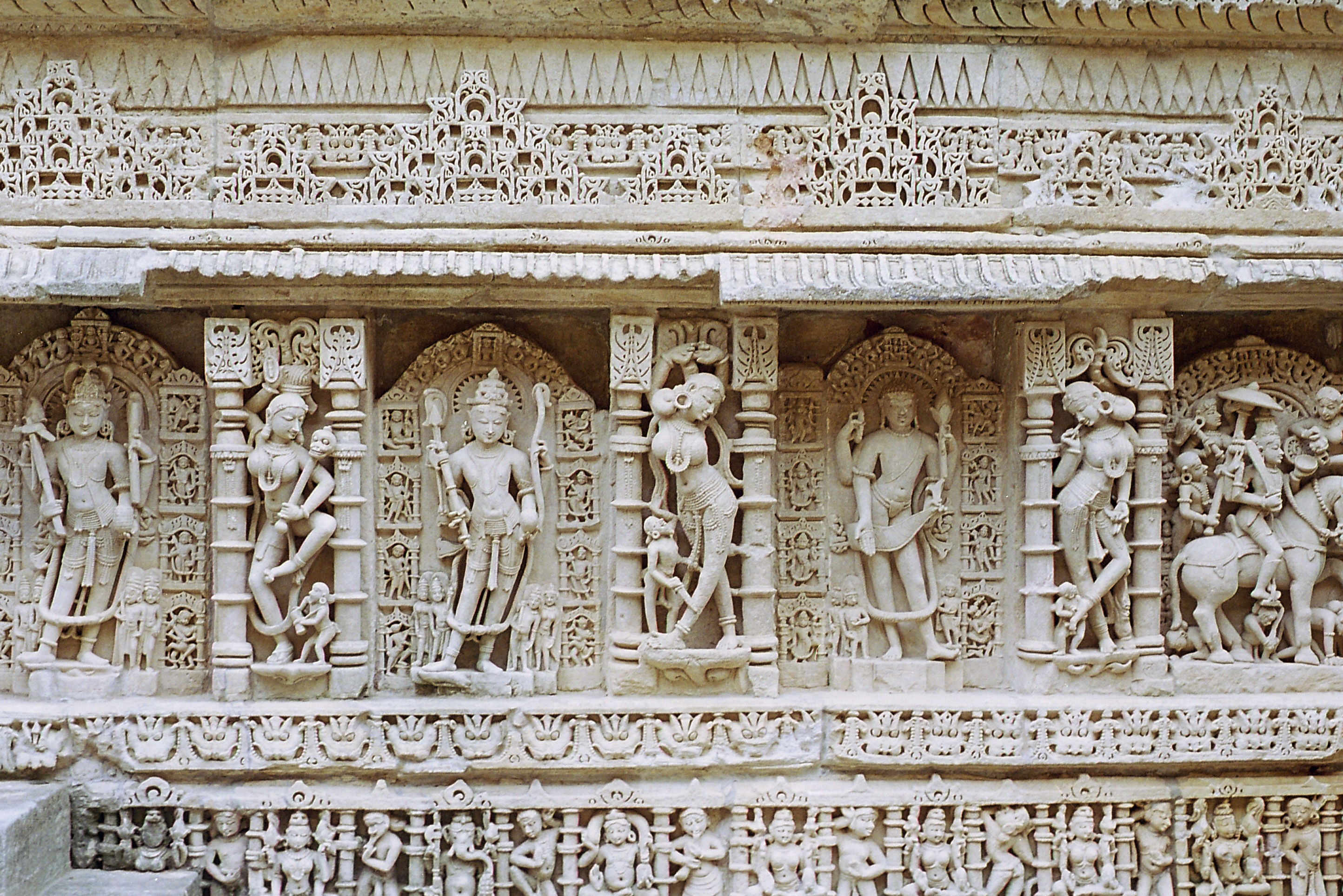 Sculptures inside Rani ki Vav, Patan, Gujarat